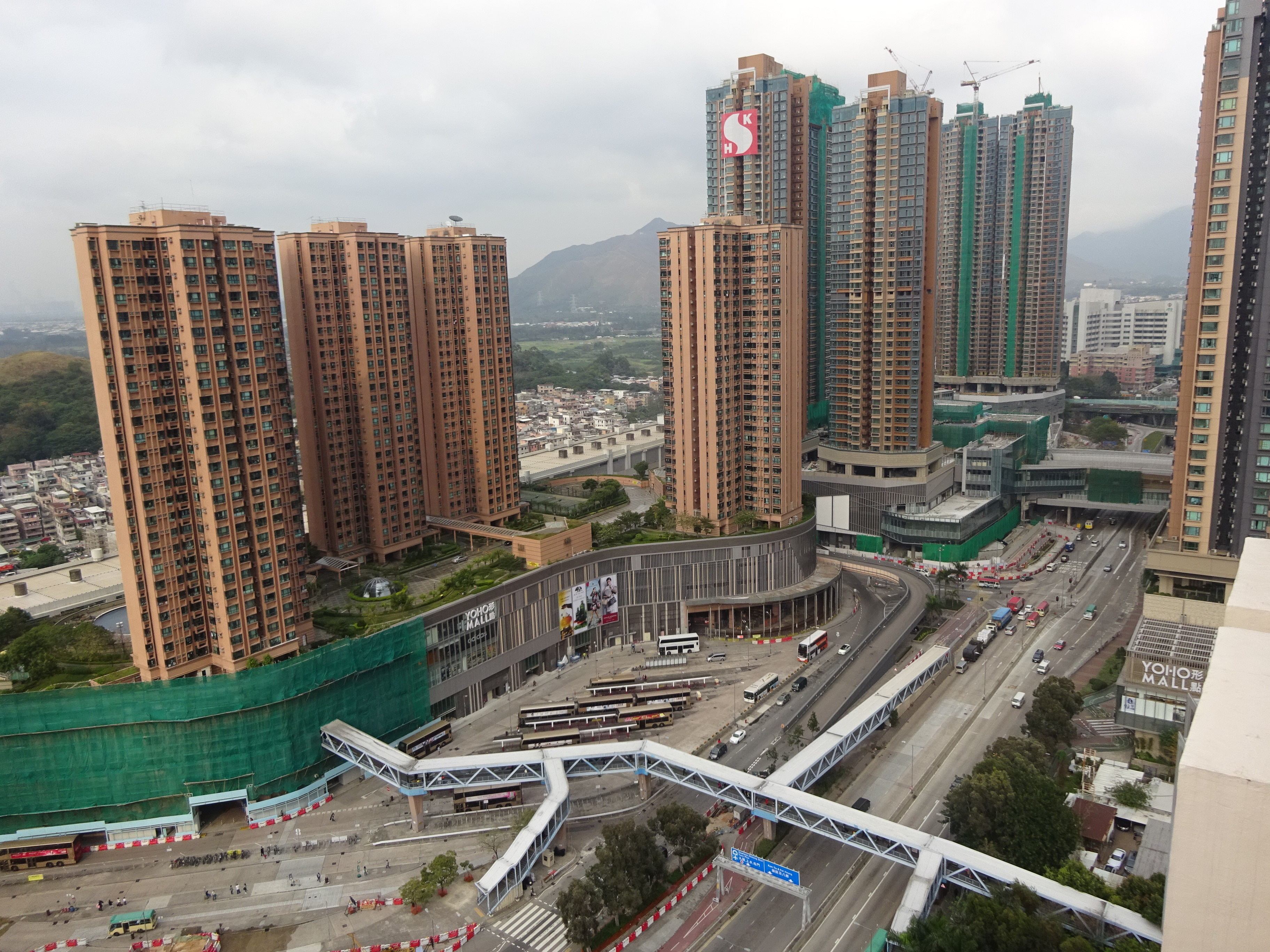 HK Yuen Long 順豐大廈 Shun Fung Building roof view Sun Yuen Long Centre Yoho Town Mar 2016 footbridge Castle Peak Road Mar-2016